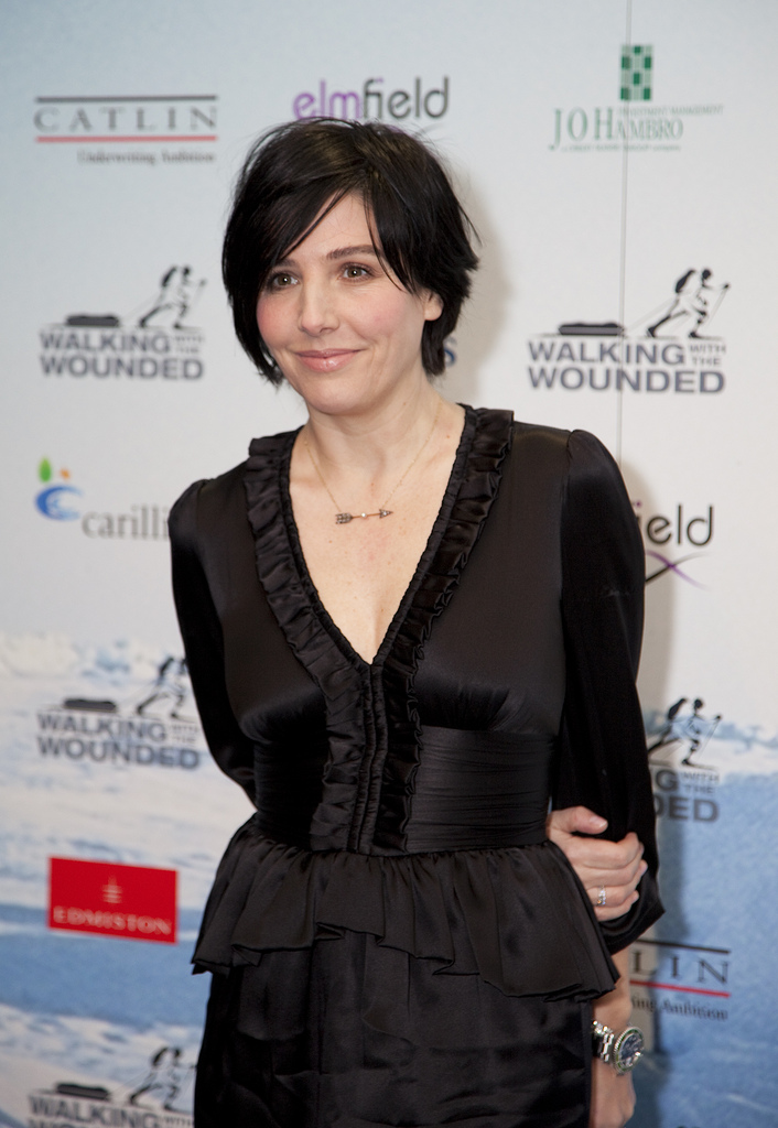 Sharleen Spiteri